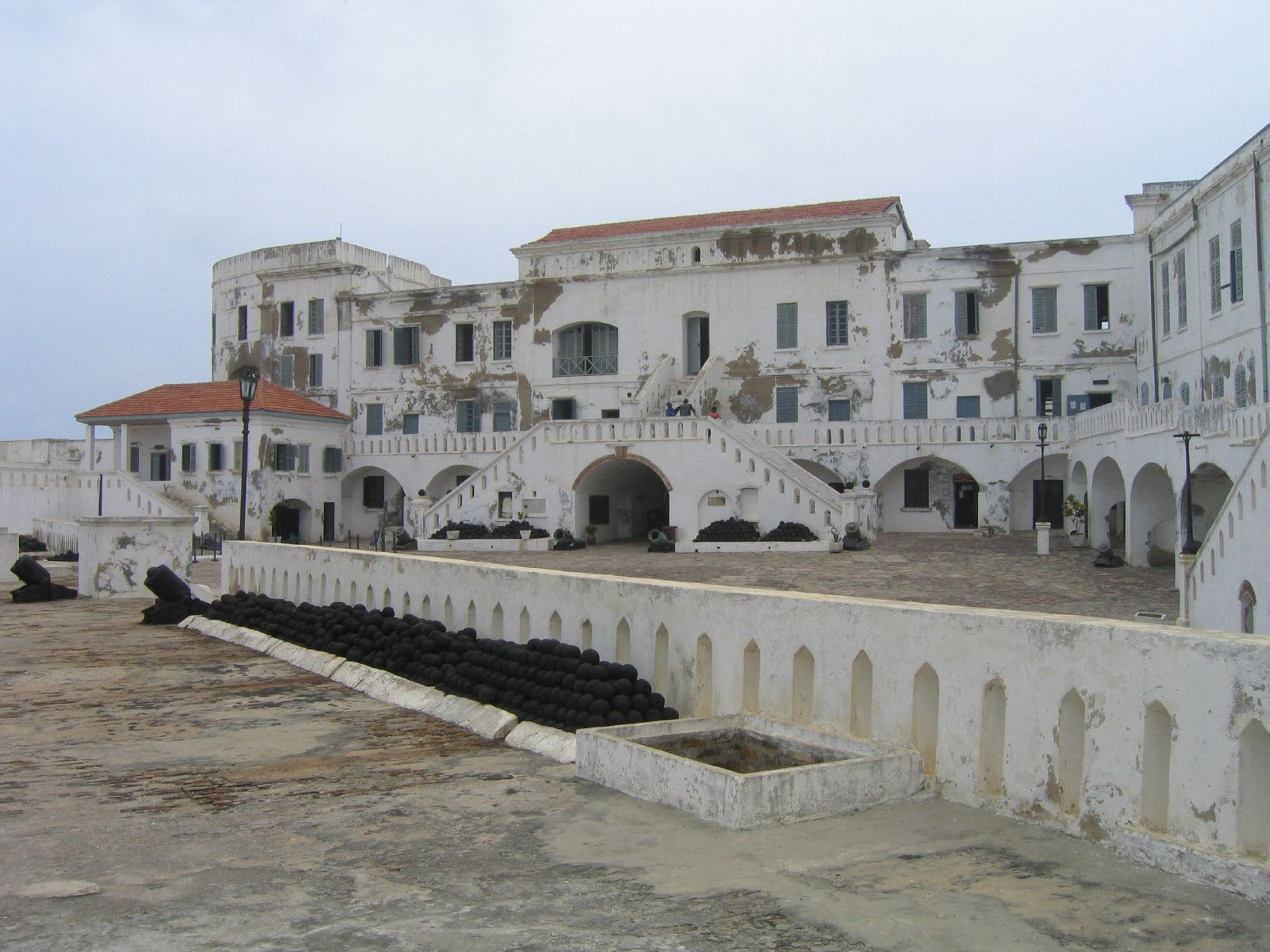 Cape Coast Castle is a fortification in Ghana. The Castle was built for the trade in timber and gold, later it was used in the trans-Atlantic slave trade, today it accommodates a museum operated by the Ghana Heritage Trust.